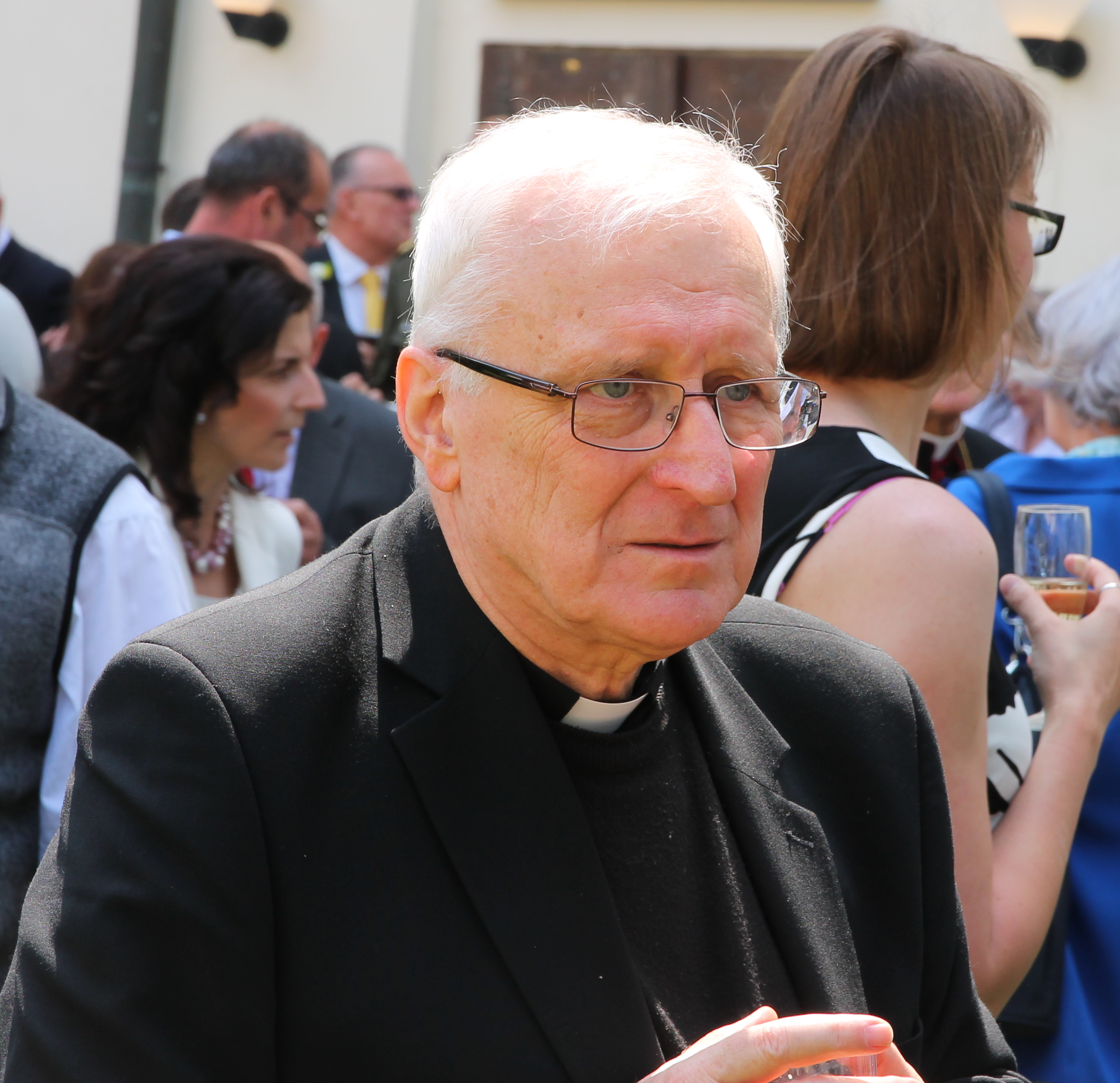 Ladislav Hučko during the episcopal ordination of Zdenek Wasserbauer held on May 19th, 2018, Prague